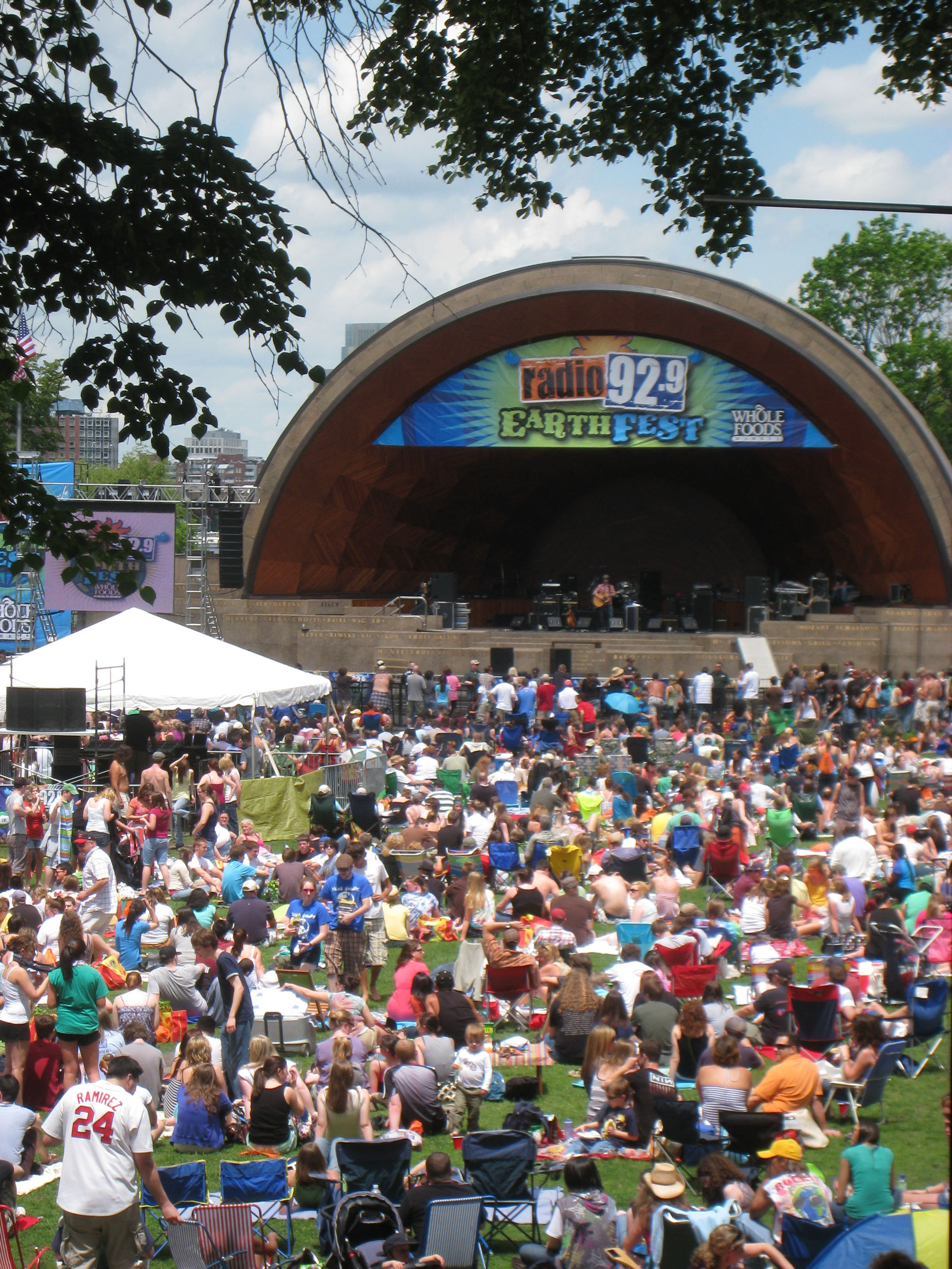 Concert in the Hatch Shell, Boston, Massachusetts, USA.